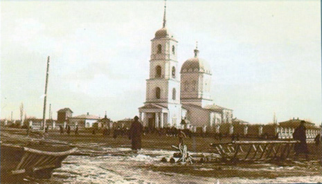 Holy Trinity Church, Engels, Russia